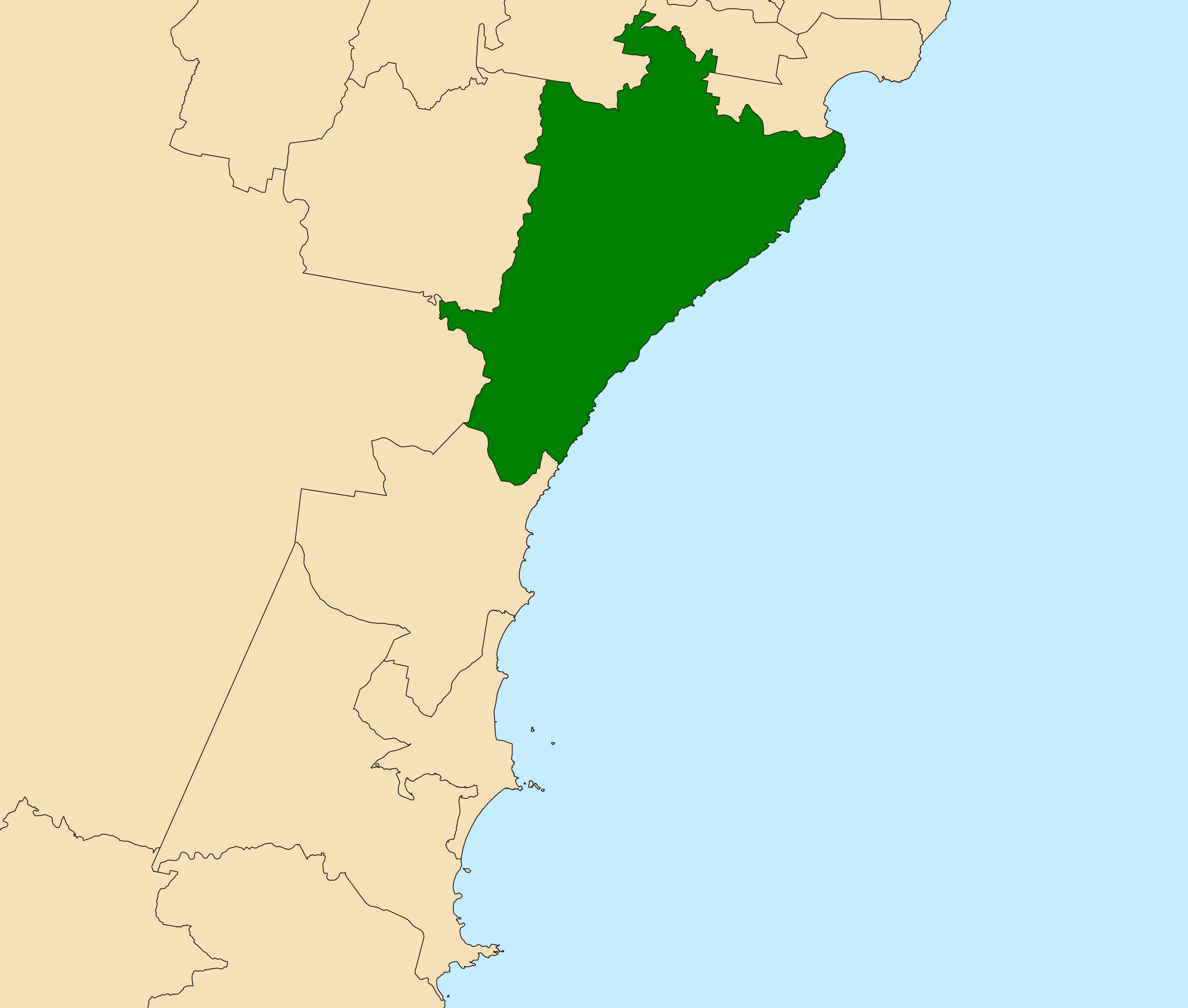 Location of the state electoral district of Heathcote (dark green) in the Illawarra region of New South Wales, Australia as of the 2019 New South Wales state election. Incorporates or developed using Administrative Boundaries ©PSMA Australia Limited licensed by the Commonwealth of Australia under Creative Commons Attribution 4.0 International licence (CC BY 4.0).